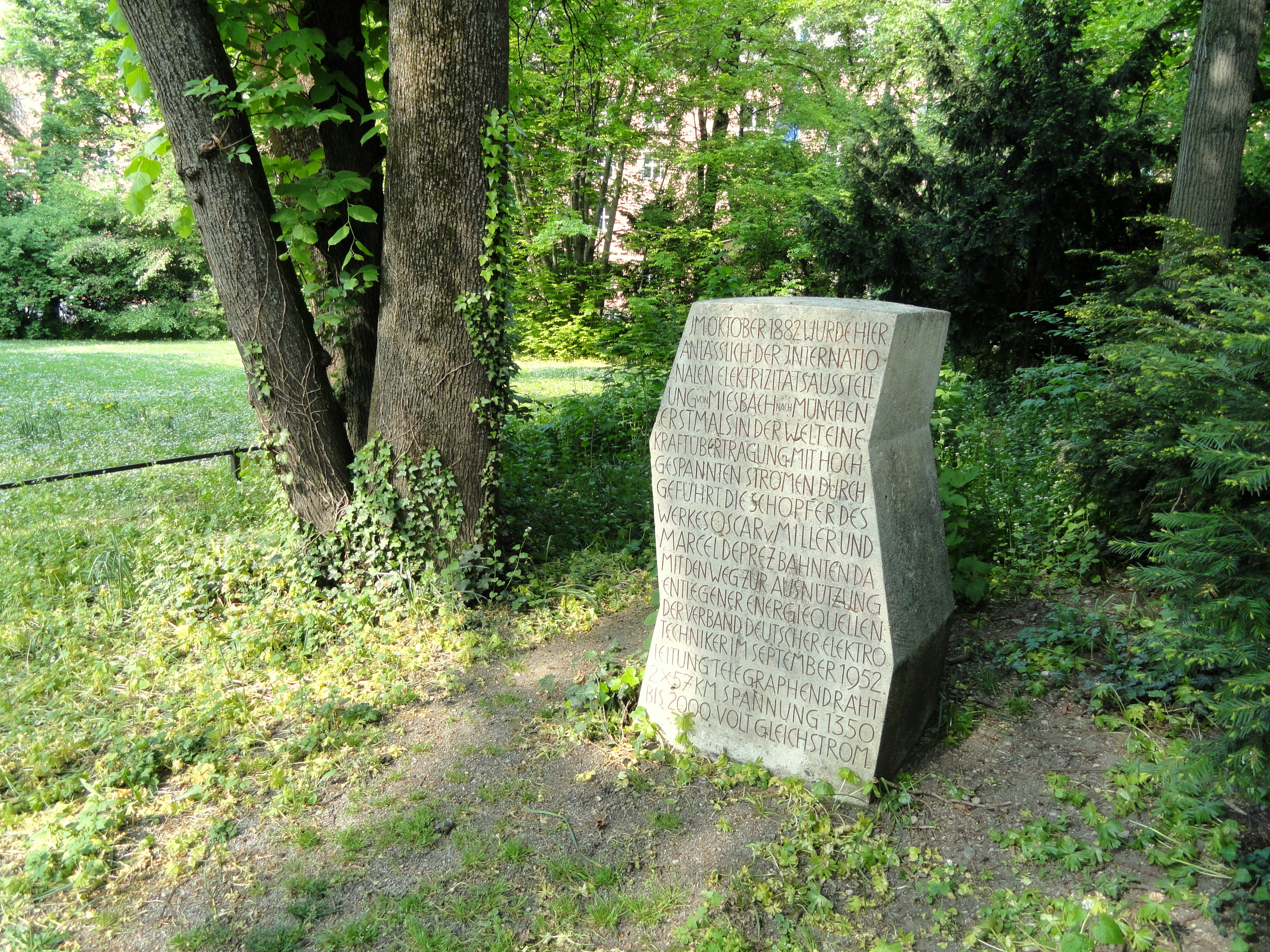 Monument to the first long distance power transmission, direct current between Miesbach and Munich, 1882, by Oskar von Miller. Alter Botanischer Garten, Munich, Germany.